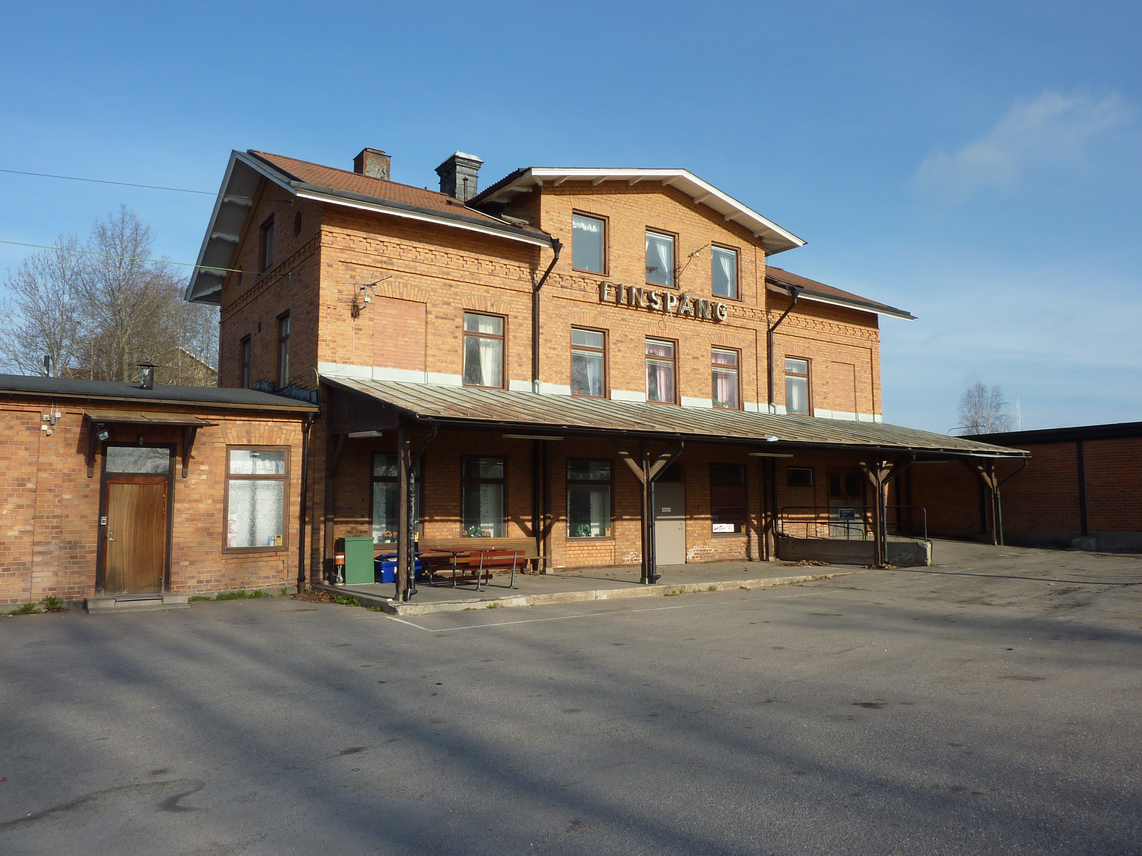 Railway station Finspång in Sweden